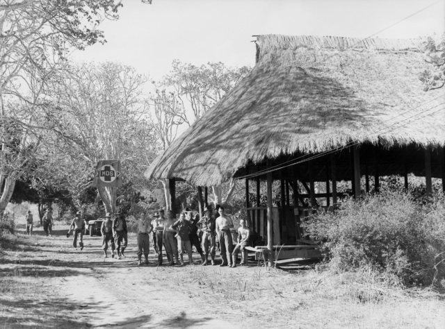 057032 Nadzab, New Guinea. 1943-09-19. The Admission Centre of the 2/4th Australian Field Ambulance Main Dressing Station, 7th Australian Division. This building was formerly the Gabmatzung Lutheran Mission Church.